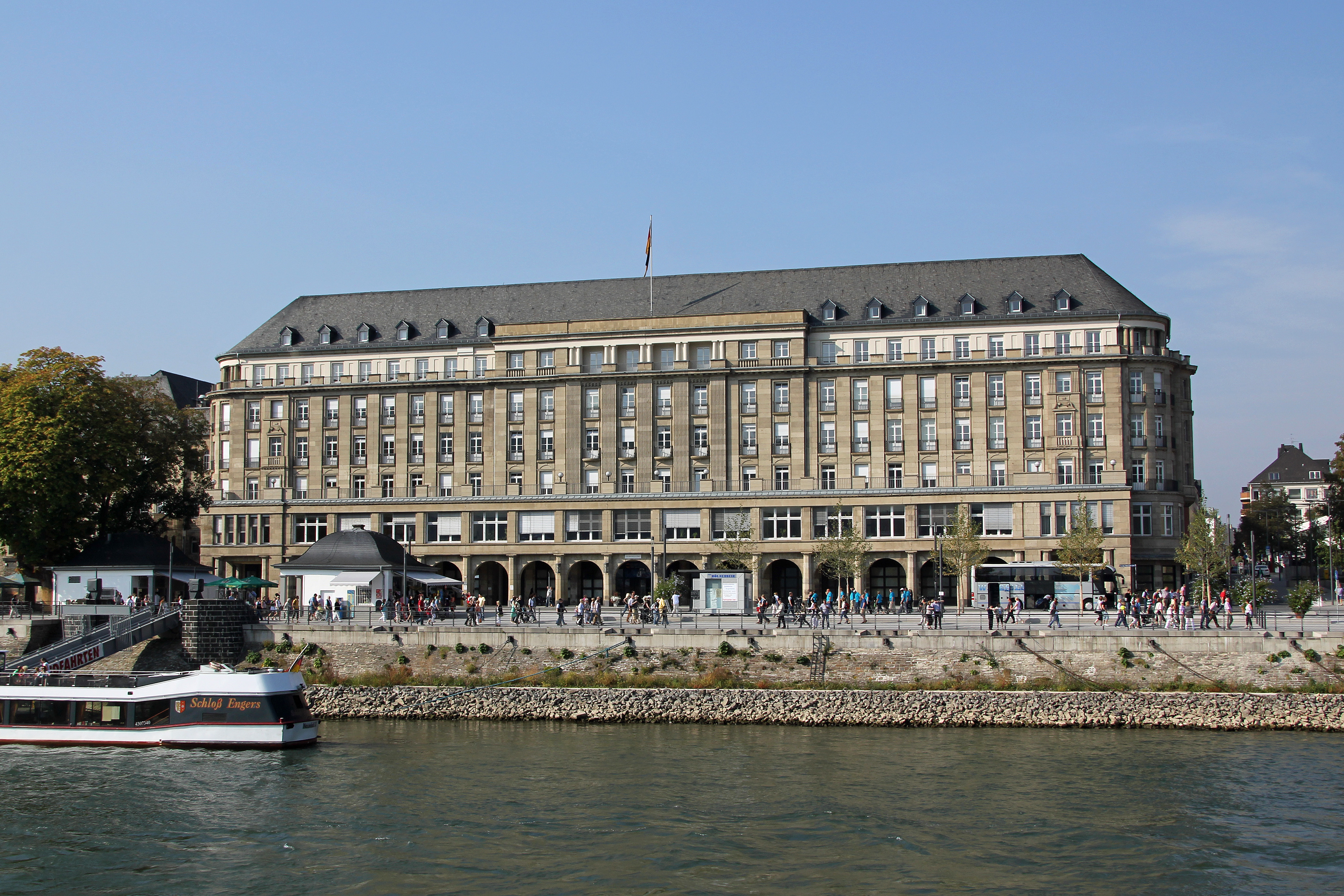 Rhine park in Koblenz